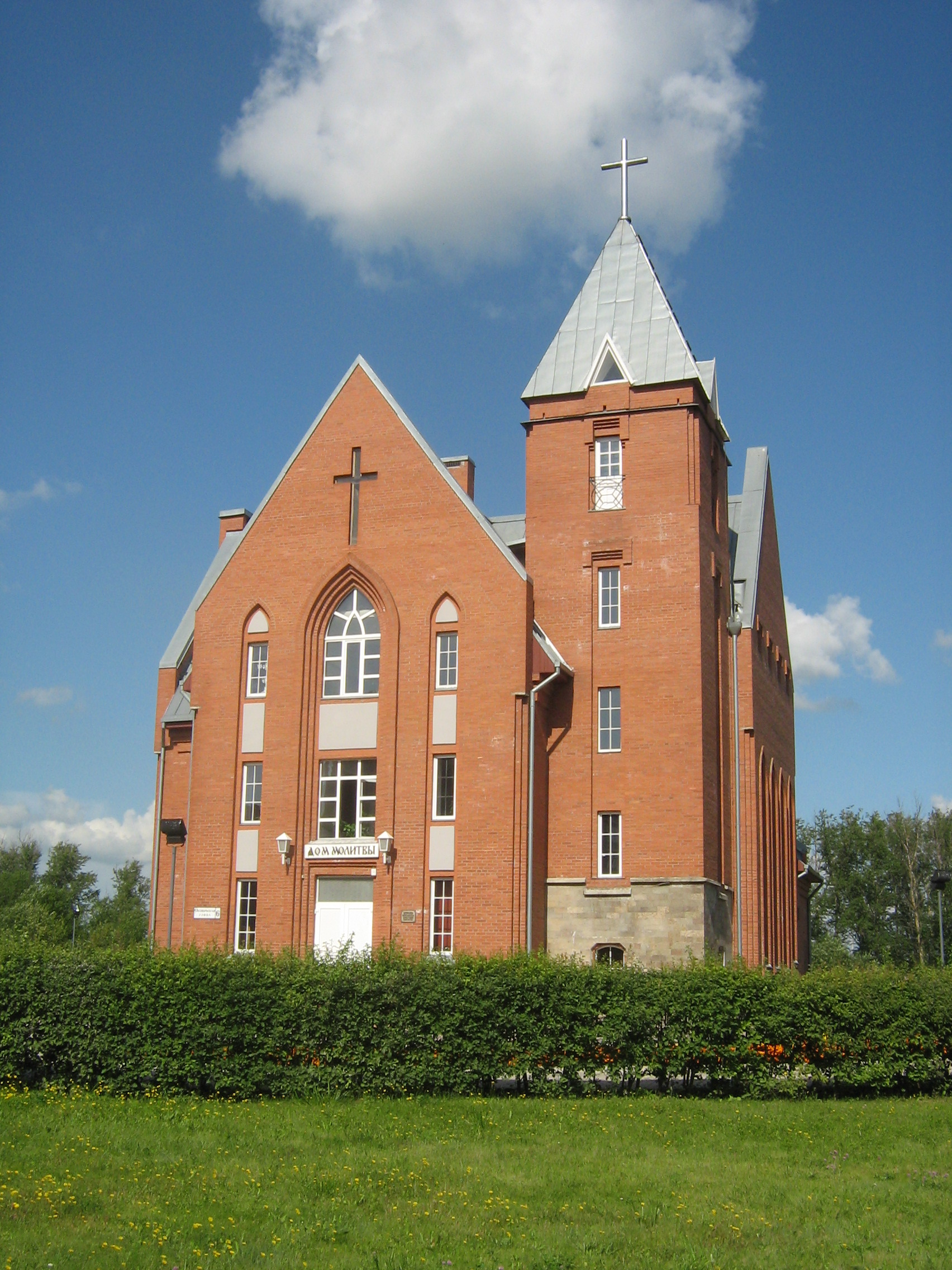 Kolpino (Russia), .